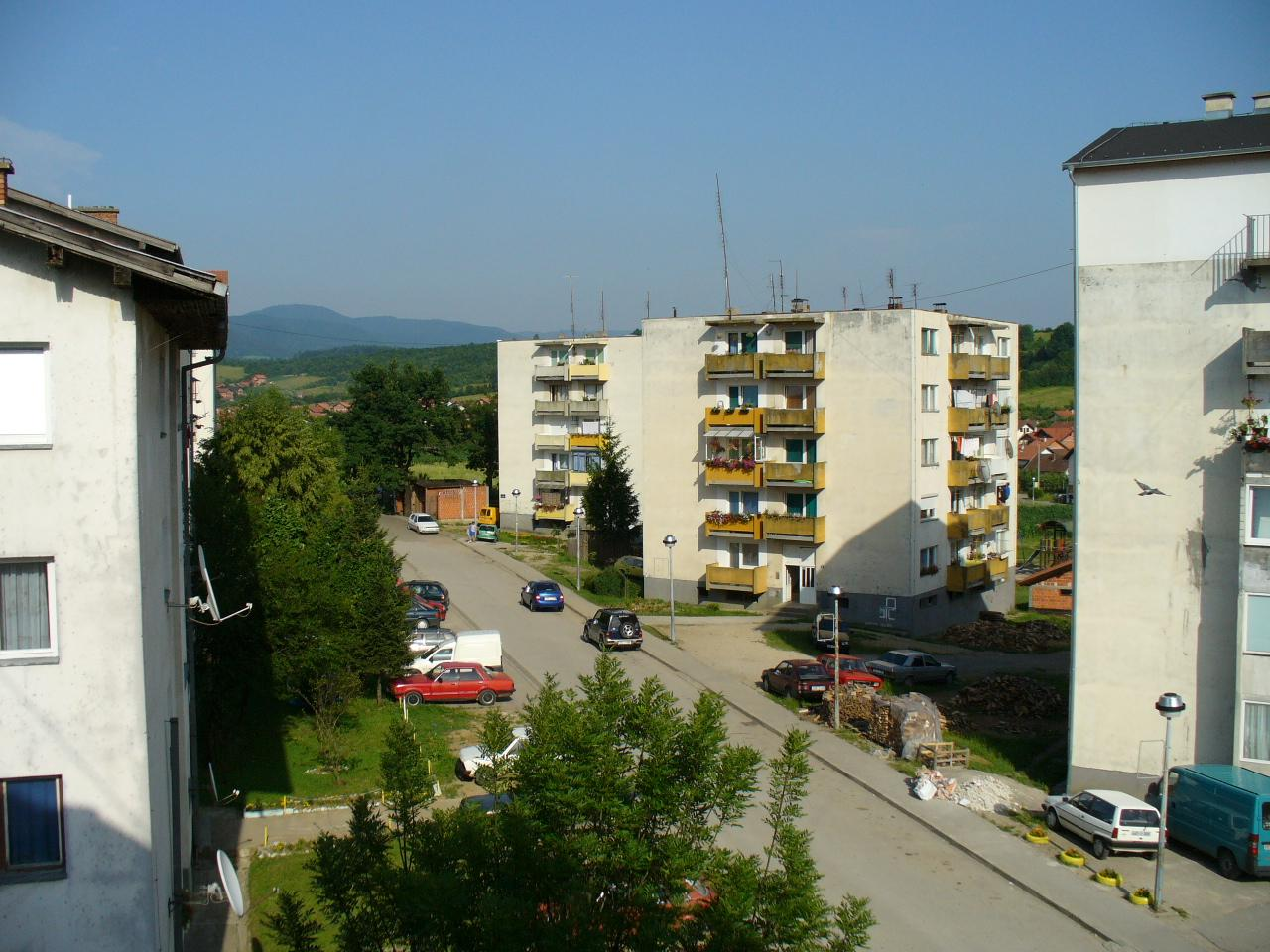 Kotor Varos, 2007, made by: Zlatko 19:29, 25 July 2007 (UTC), GFDL, released to Wikipedia.